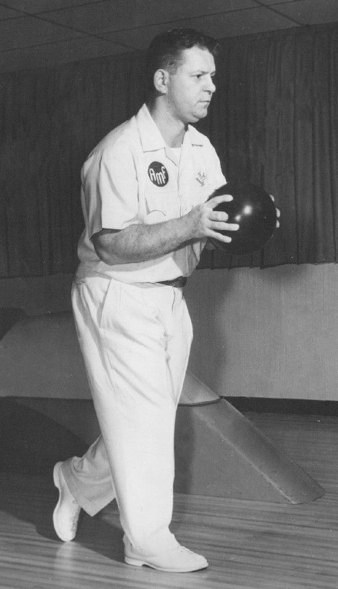 1959 Guinness Book of World Record Bowler Ed Lubanski Press Photo